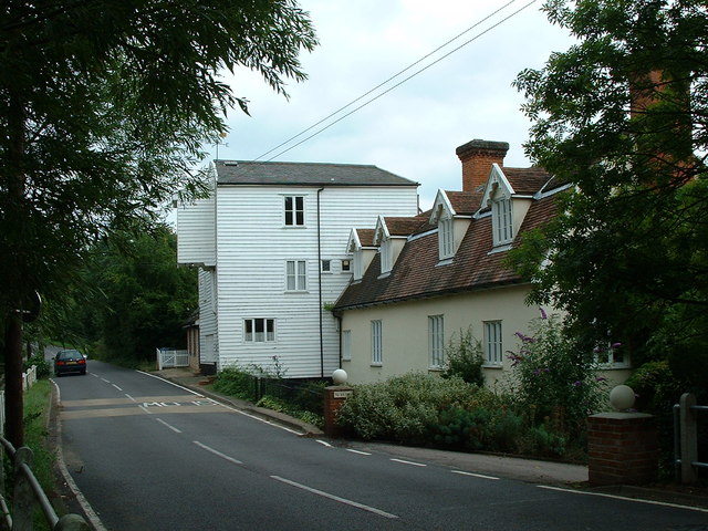 The Old Mill. The old watermill Holbrook Suffolk.